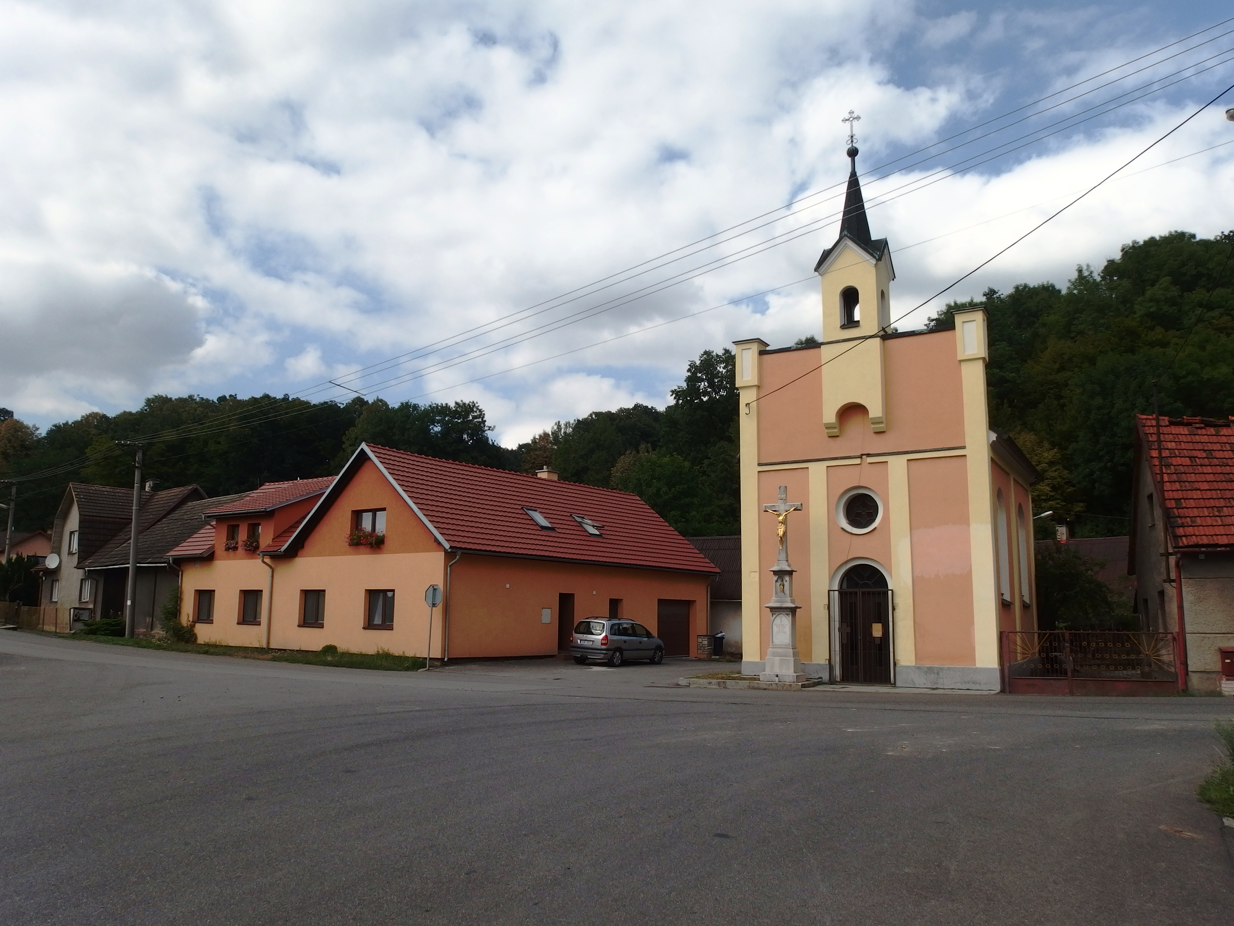 Lešná, Vsetín District, Czech Republic, part Příluky.